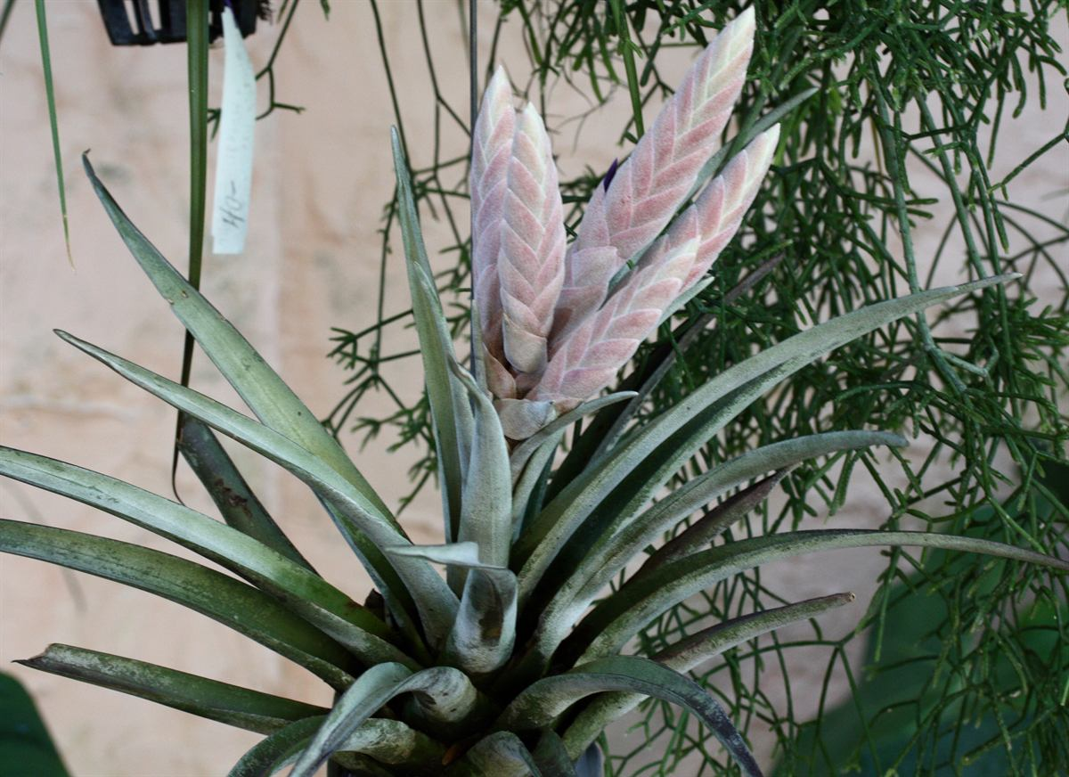 Tillandsia chiapensis, from Mexico